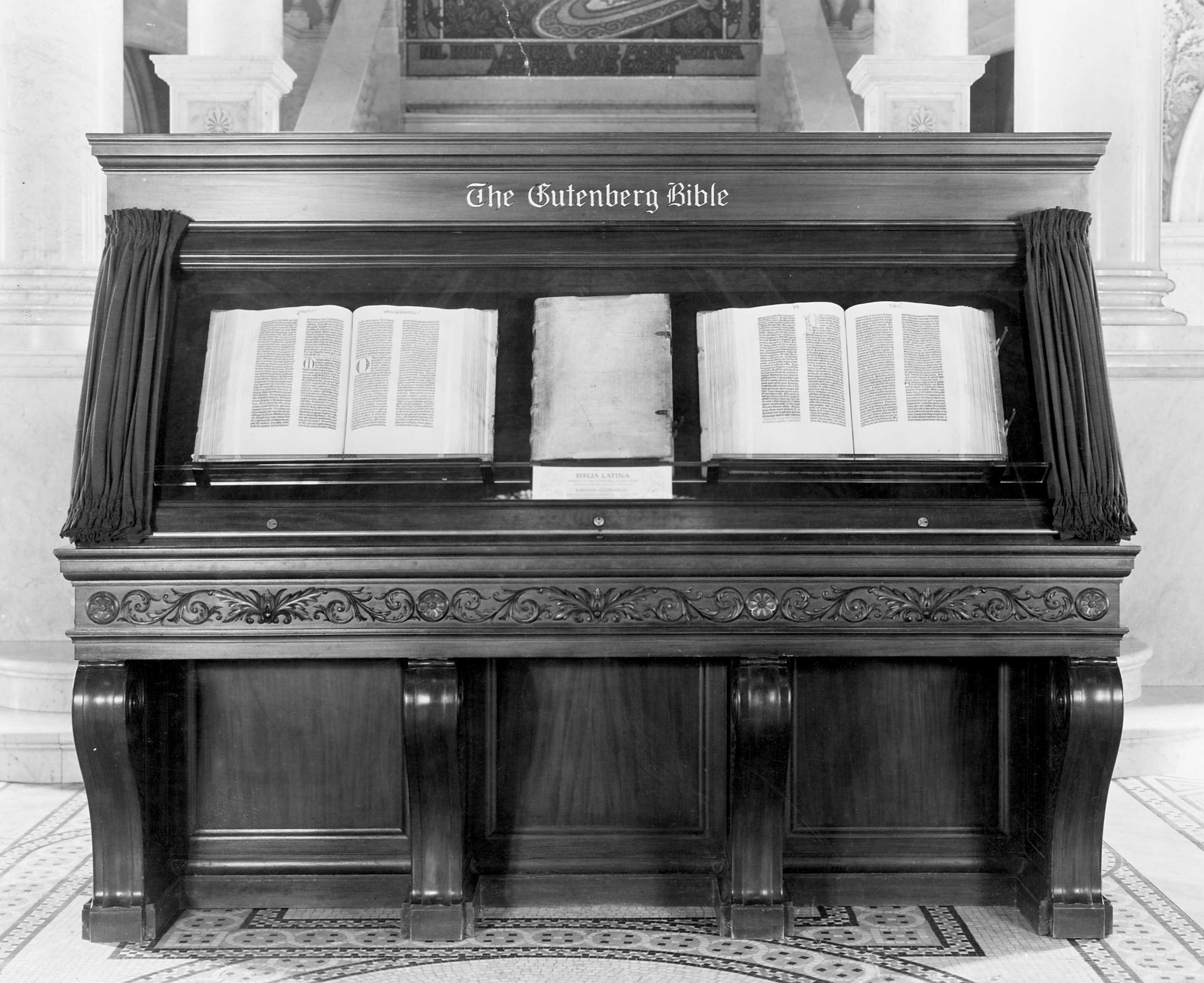 The Gutenberg Bible on display at the Library of Congress, November 1944.